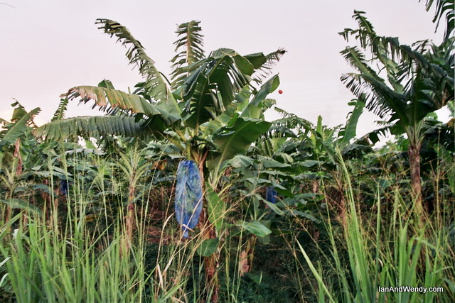 Banana plant growing in St Lucia Own photo from website. More at